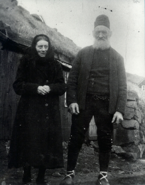 Joen Frederik Olsen (b. 1870) and Else Olsen (b. Frederiksøn) of the house ”Har Frammi” in Múla, Faroe Islands ca. 1940. The house "Har Frammi" in Múli in the Faroe Islands was in 1961 investigated and dismantled by a crew from the Open Air Museum in Copenhagen, Denmark. The house was dismantled and shipped to Denmark, and has now been rebuilt in the Open Air Museum in Copenhagen.